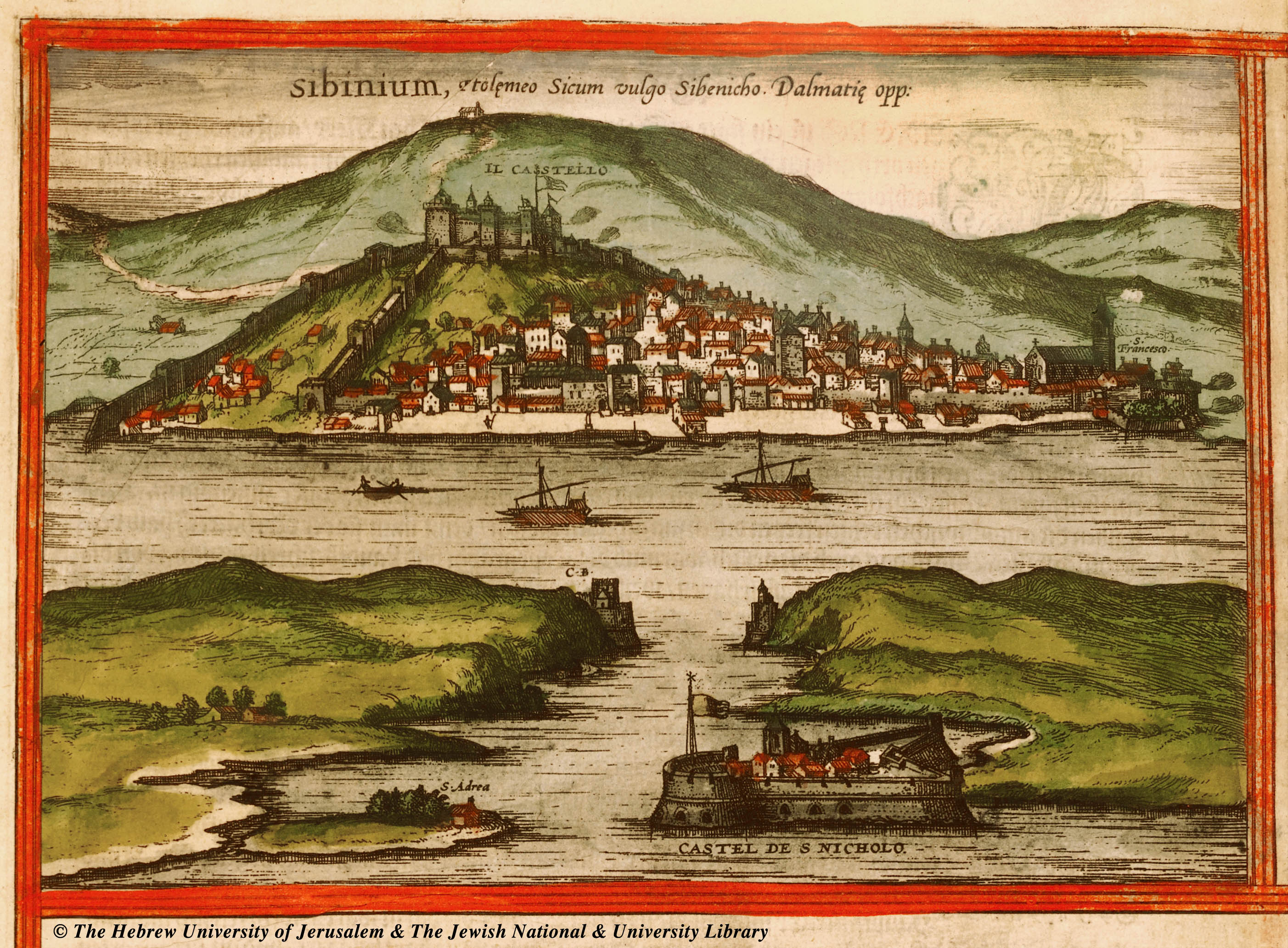 Map of Sibenik 1575, Braun and Hogenberg, Civitates Orbis Terrarum, map II-52